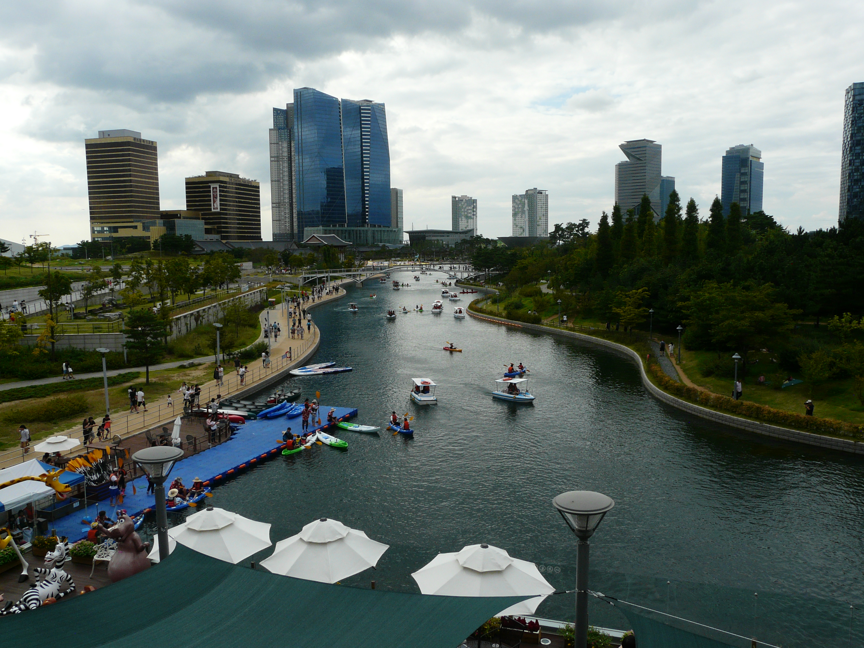 Songdo International Business District